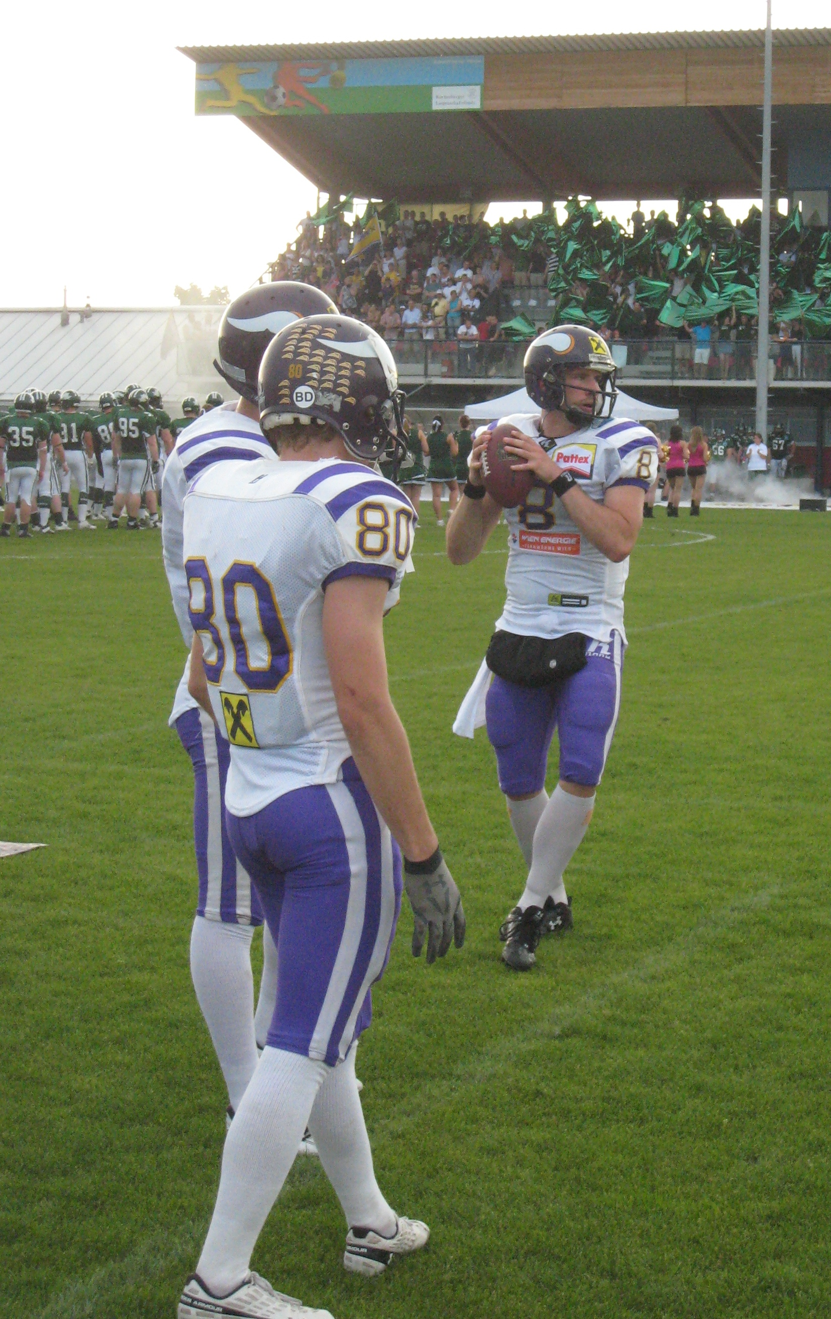 Austrian Football League regular season game @Danube Dragons vs. Raiffeisen Vikings Vienna, Korneuburg, Rattenfängerstadium #8 QB Christoph Gross